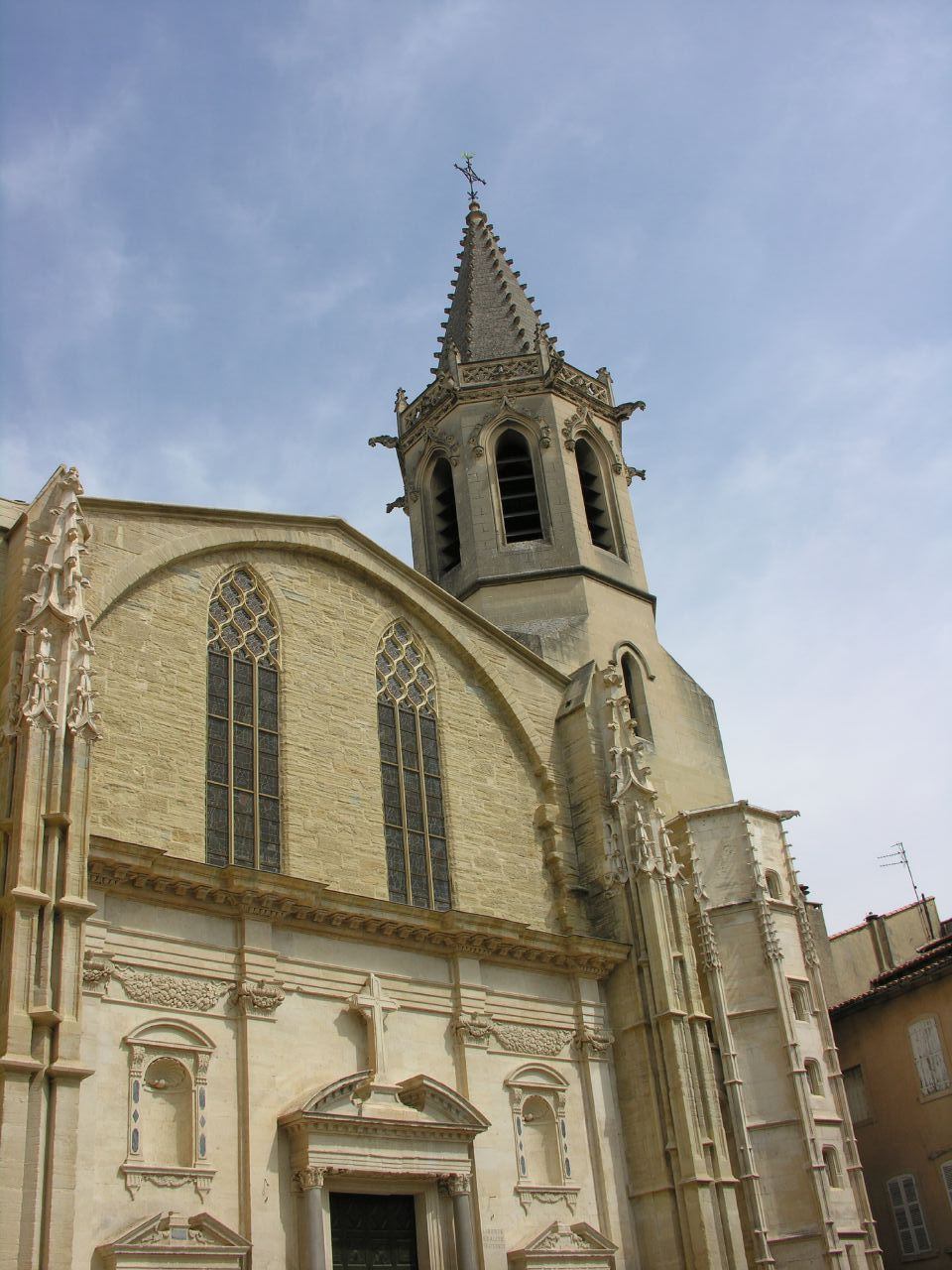 Cathedral Saint-Siffrein in Carpentras, France